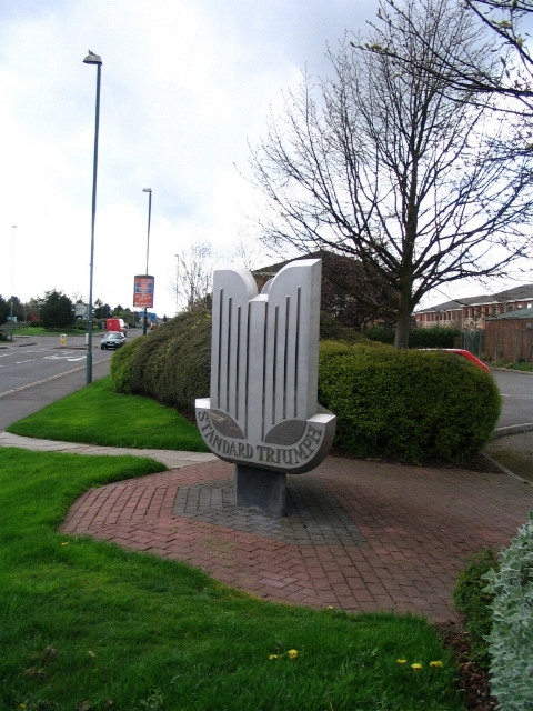 Standard Triumph monument, Herald Ave. The monument is adjacent to the pavement on Herald Avenue (left background) and is (to quote the plaque) "dedicated to the manufacturers and employees of Standard and Triumph motor vehicles, whose cars were built on this site from 1919-1980".